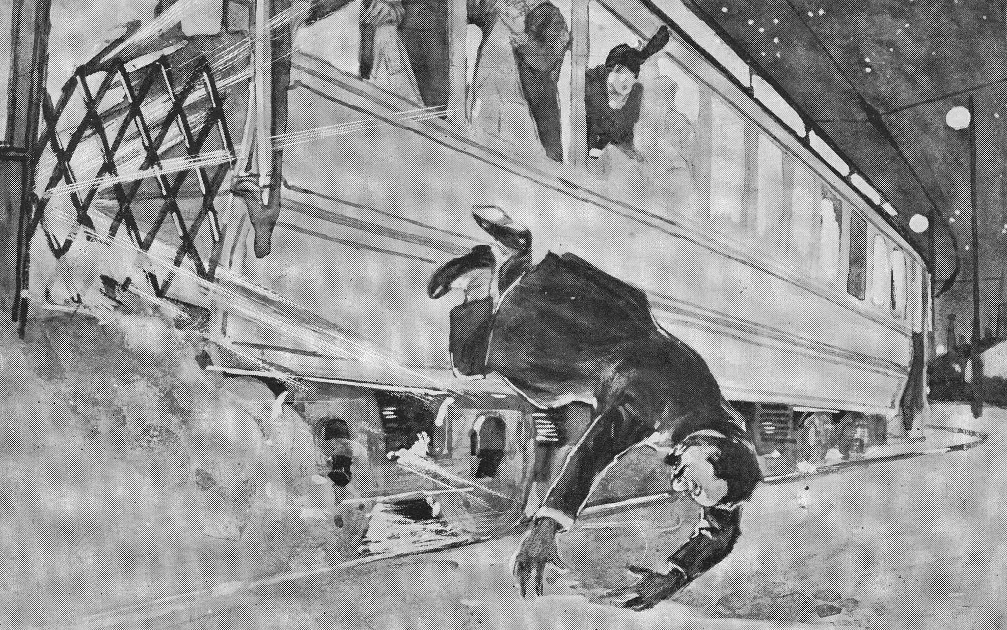 Postcard depicting Afonso Costa (1871-1937) jumping off a moving tram, following a short circuit that caused a explosion which he mistook for an assassination attempt.